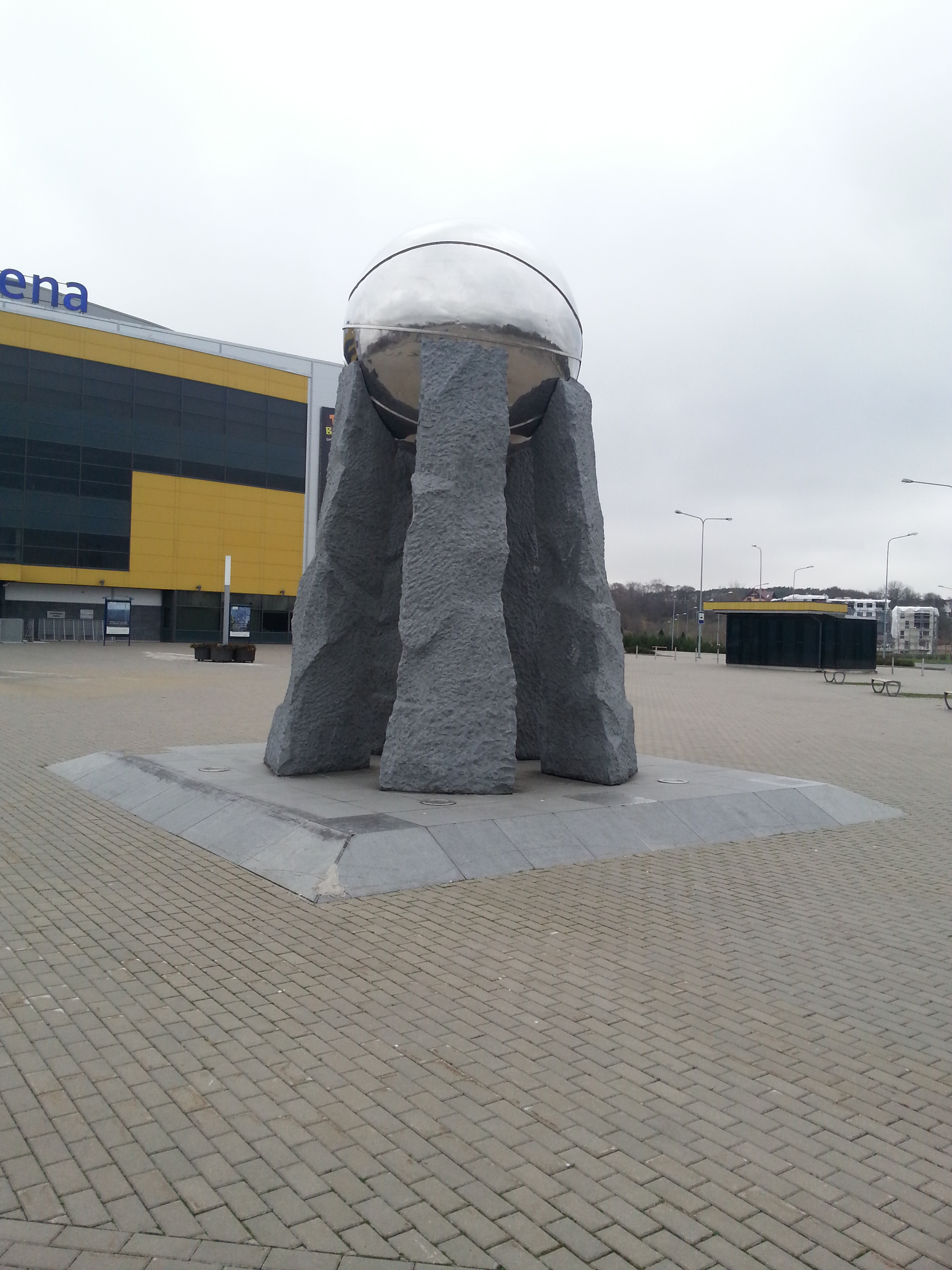 Photo of monument dedicated to Lithuanian basketball.